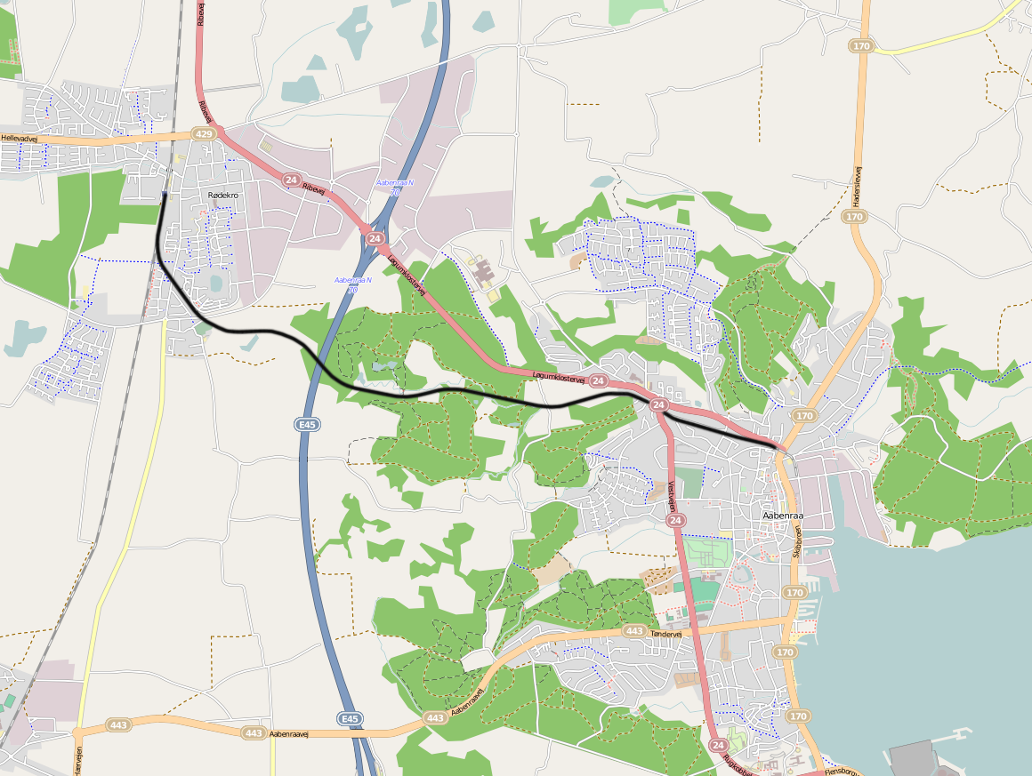 Railway line Rødekro - Åbenrå